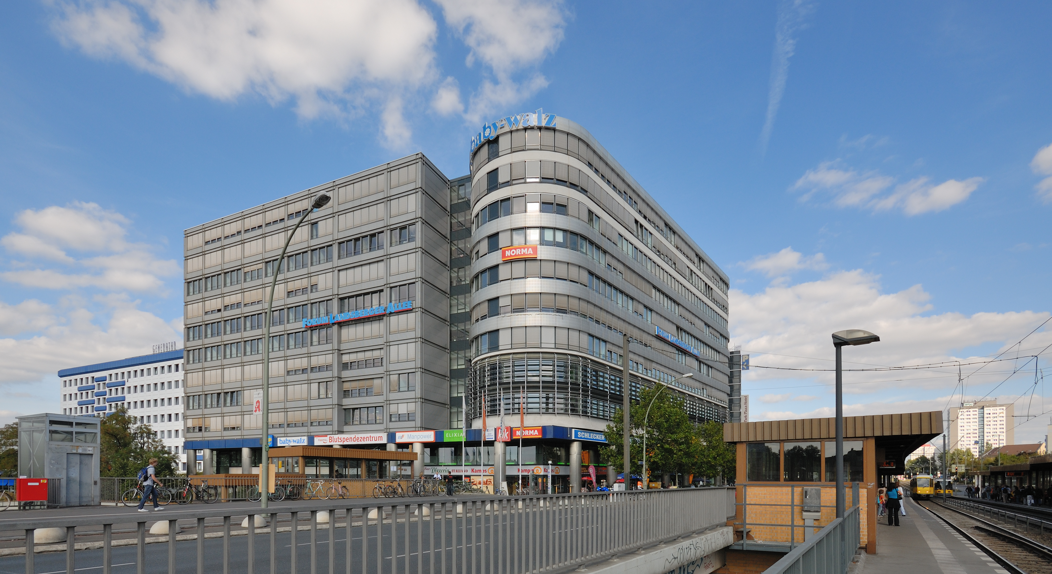 Shopping mall "Forum Landsberger Allee" next to tram stop at S-Bahn station Landsberger Allee. At the left there is the Generator Hostel Berlin.